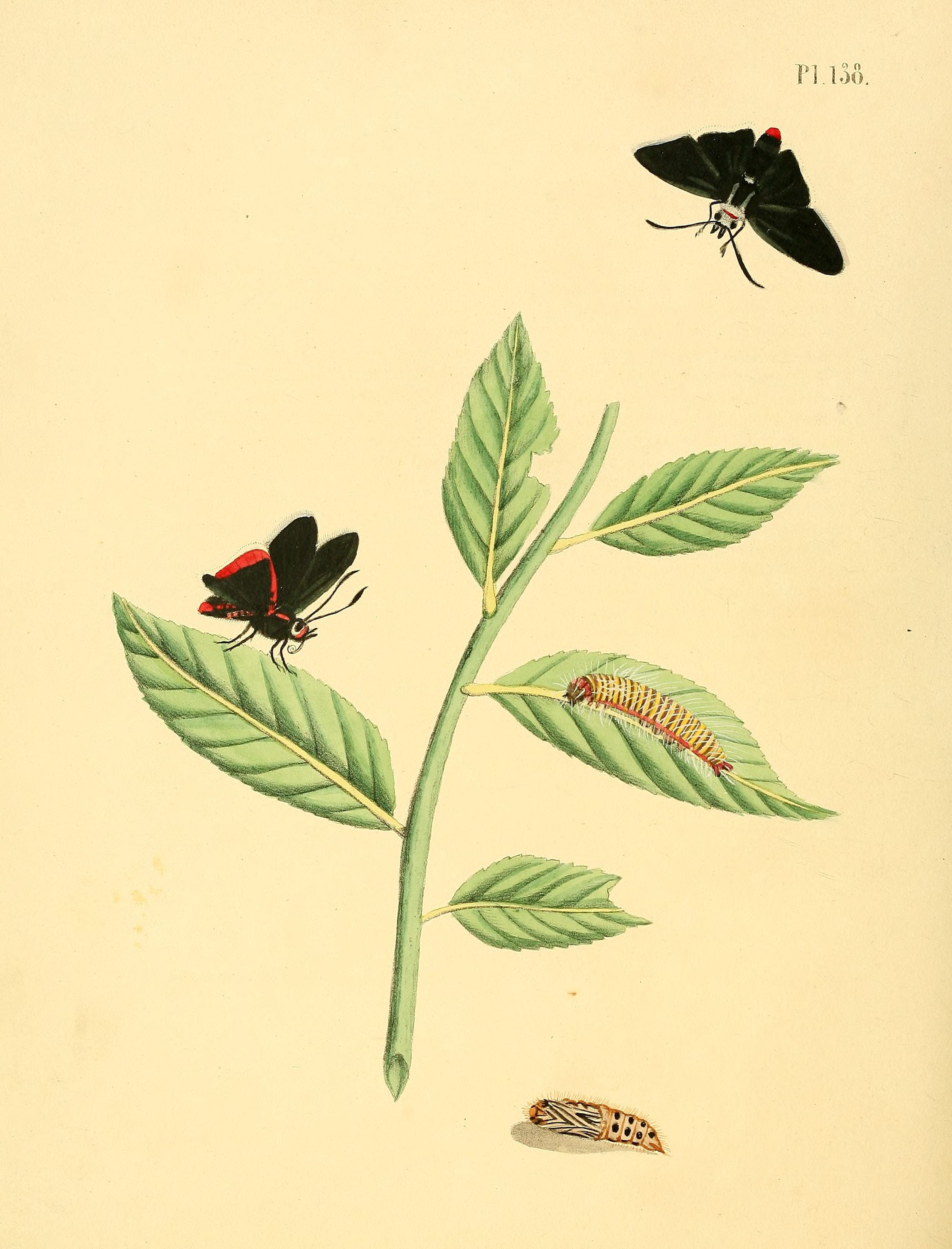 Illustration of: Mysoria barcastus (as syn. Papilio barcastus)